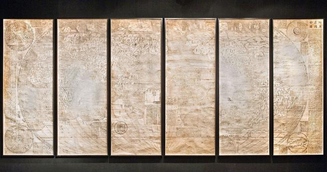 Impossible_Black_Tulip-world_map,_6_panels